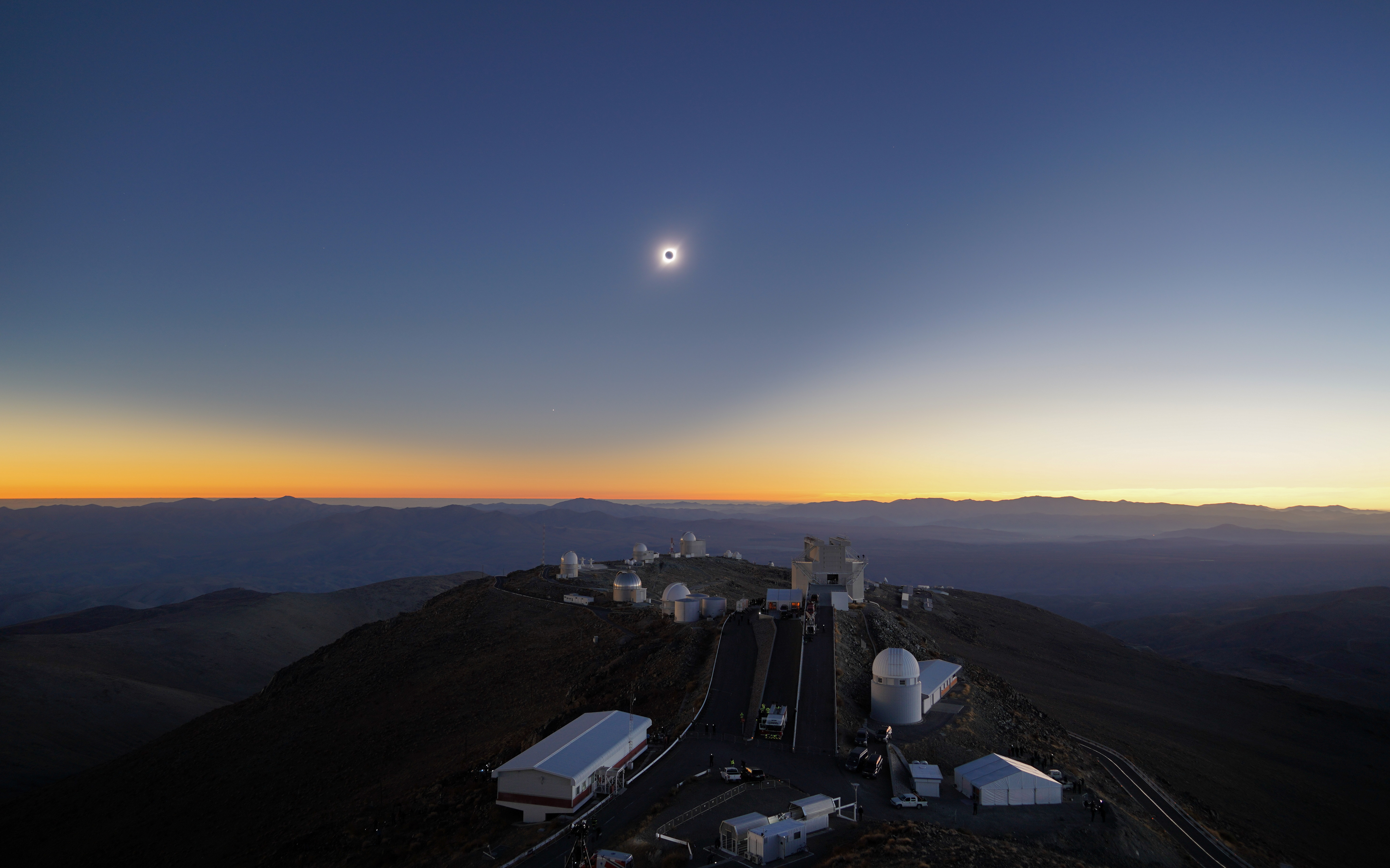 On 2 July 2019 a total solar eclipse passed over ESO’s La Silla Observatory in Chile. The eclipse lasted roughly two and a half hours, with almost two minutes of totality at 20:39 UT, and was visible across a narrow band of Chile and Argentina. To celebrate this rare event ESO invited 1000 people, including dignitaries, school children, the media, researchers, and the general public, to come to the Observatory to watch the eclipse from this unique location.